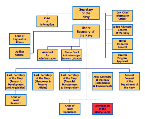 Organization of the Office of the Secretary of the Navy